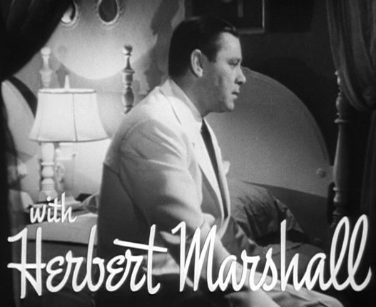 Cropped screenshot of Herbert Marshall from the trailer for the film The Letter.